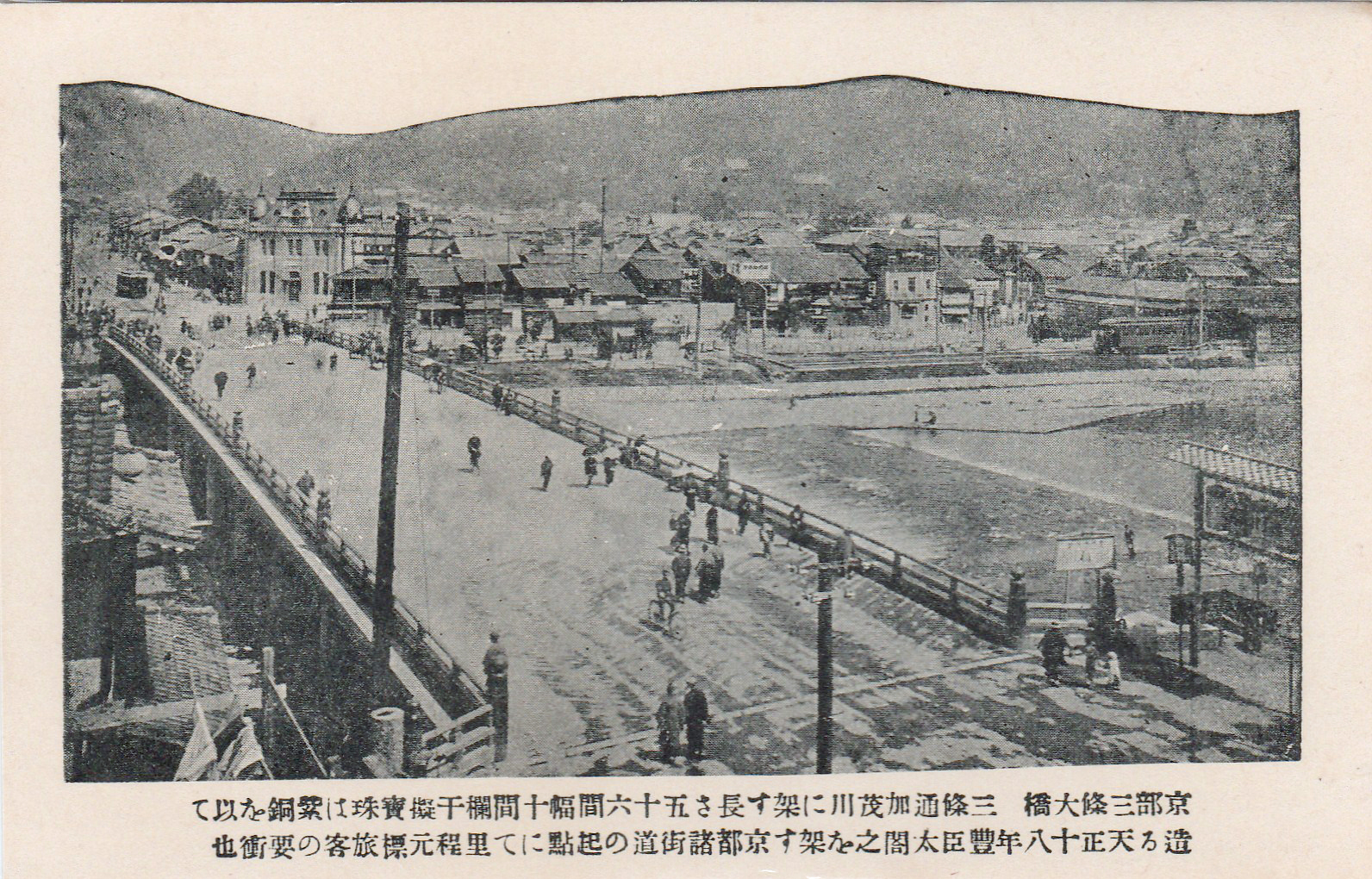 Japanese postcard with a view of the Sanjo Bridge in Kyoto